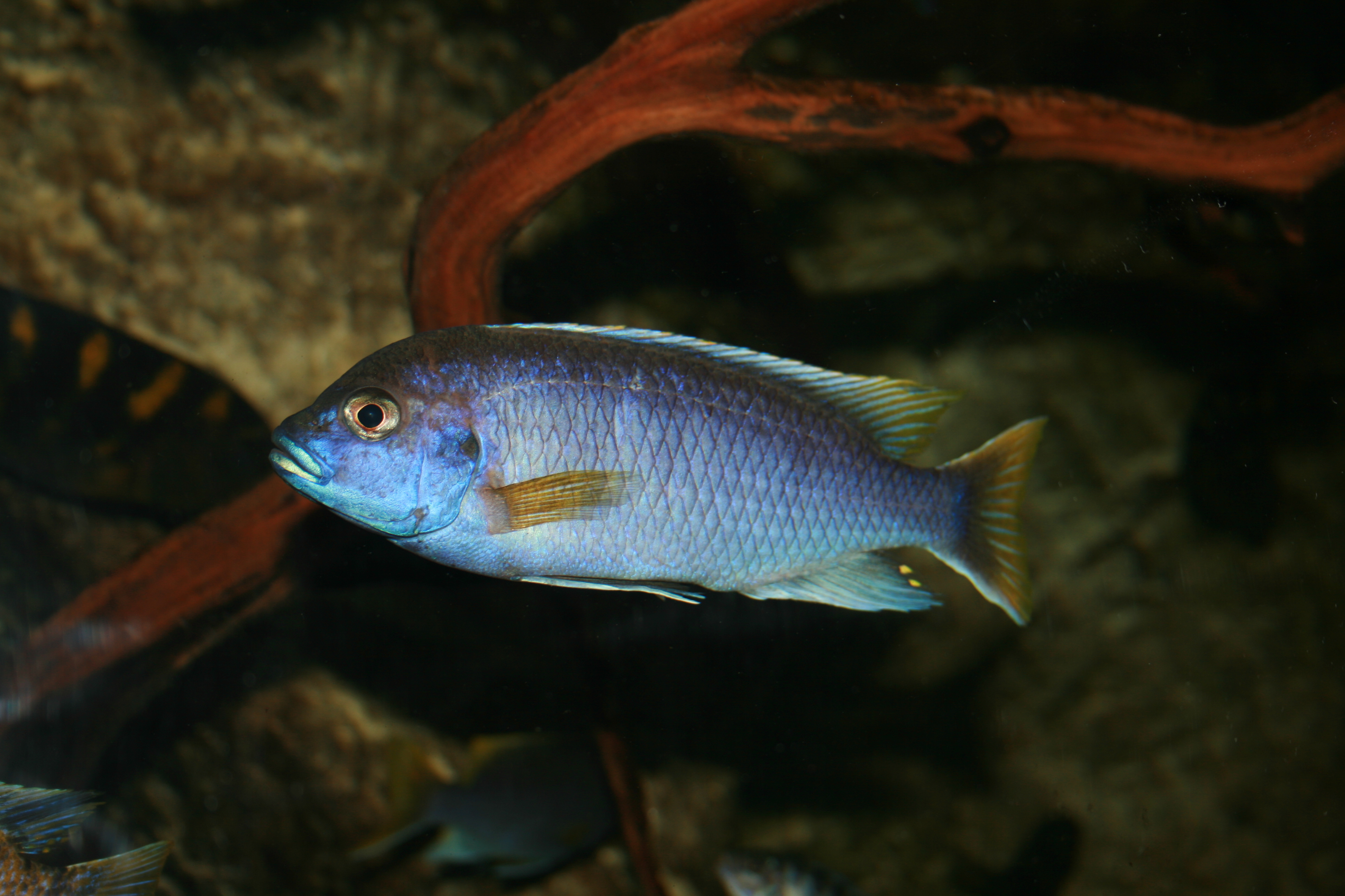 A blue Lake Malawi Cichlid at the California Academy of Sciences.